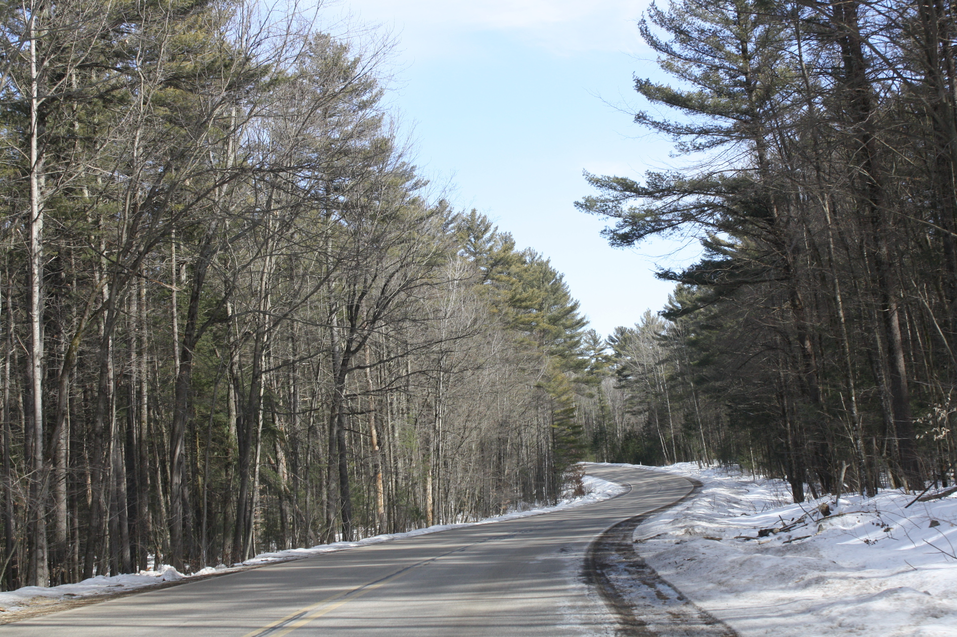 Looking east woods in Menominee County, Wisconsin.